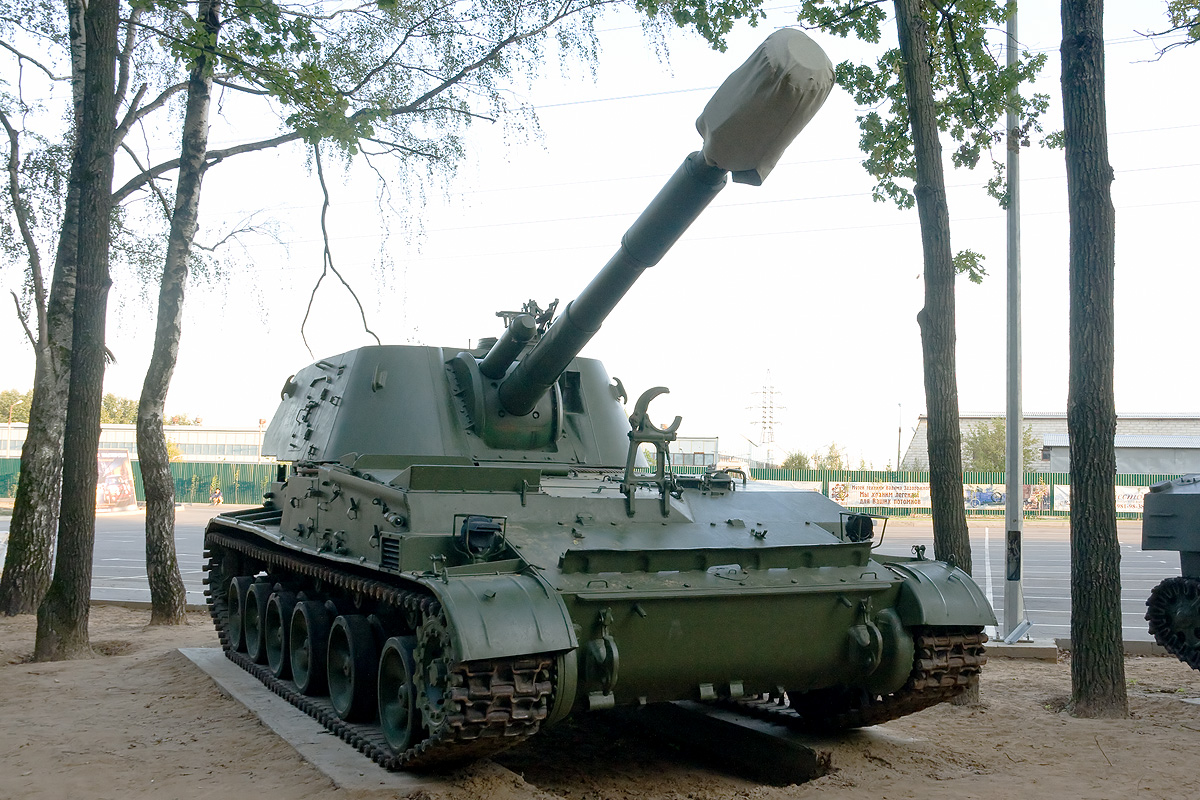 2S3 Akatsiya